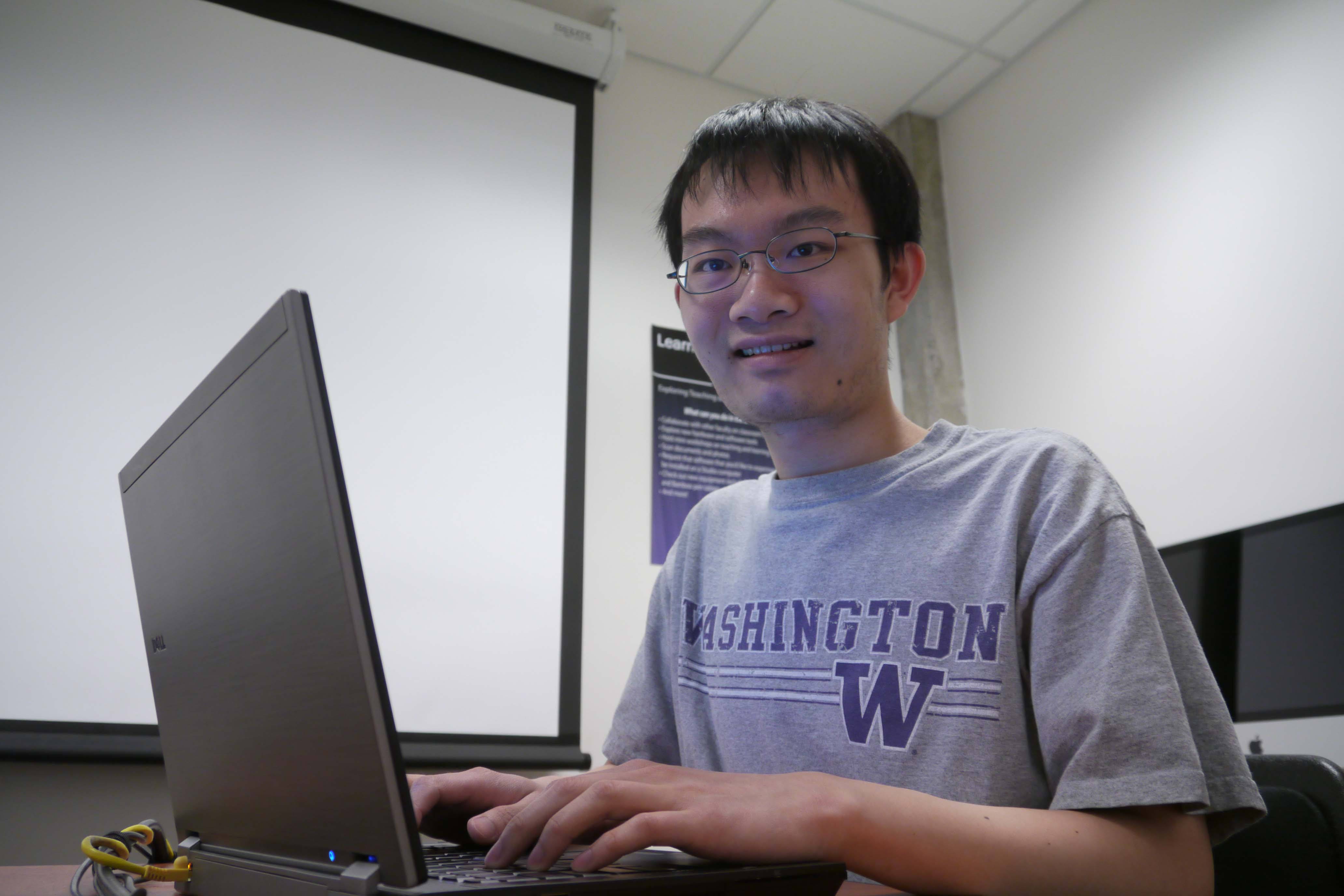 Picture of a student using a laptop.